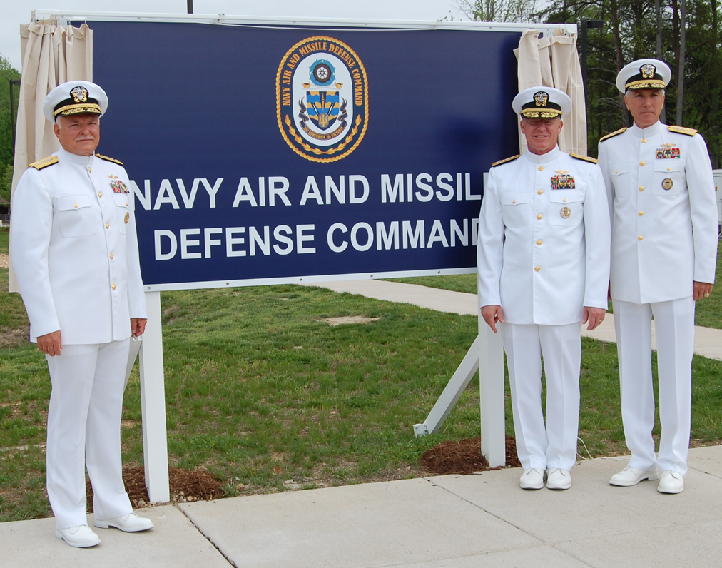 DAHLGREN, Va. (April 30, 2009) Rear Adm. Alan B. "Brad" Hicks, Commander, Navy Air And Missile Defense Command, stands with Adm. Robert F. Willard, Commander, U.S. Pacific Fleet and Vice Adm. Samuel J. Locklear III, Commander, U.S. 3rd Fleet, during a ceremony at Naval Support Facility Dahlgren to establish the Navy Air And Missile Defense Command. (U.S. Navy photo by Mass Communication Specialist 3rd Class Christopher Dollar/Released)